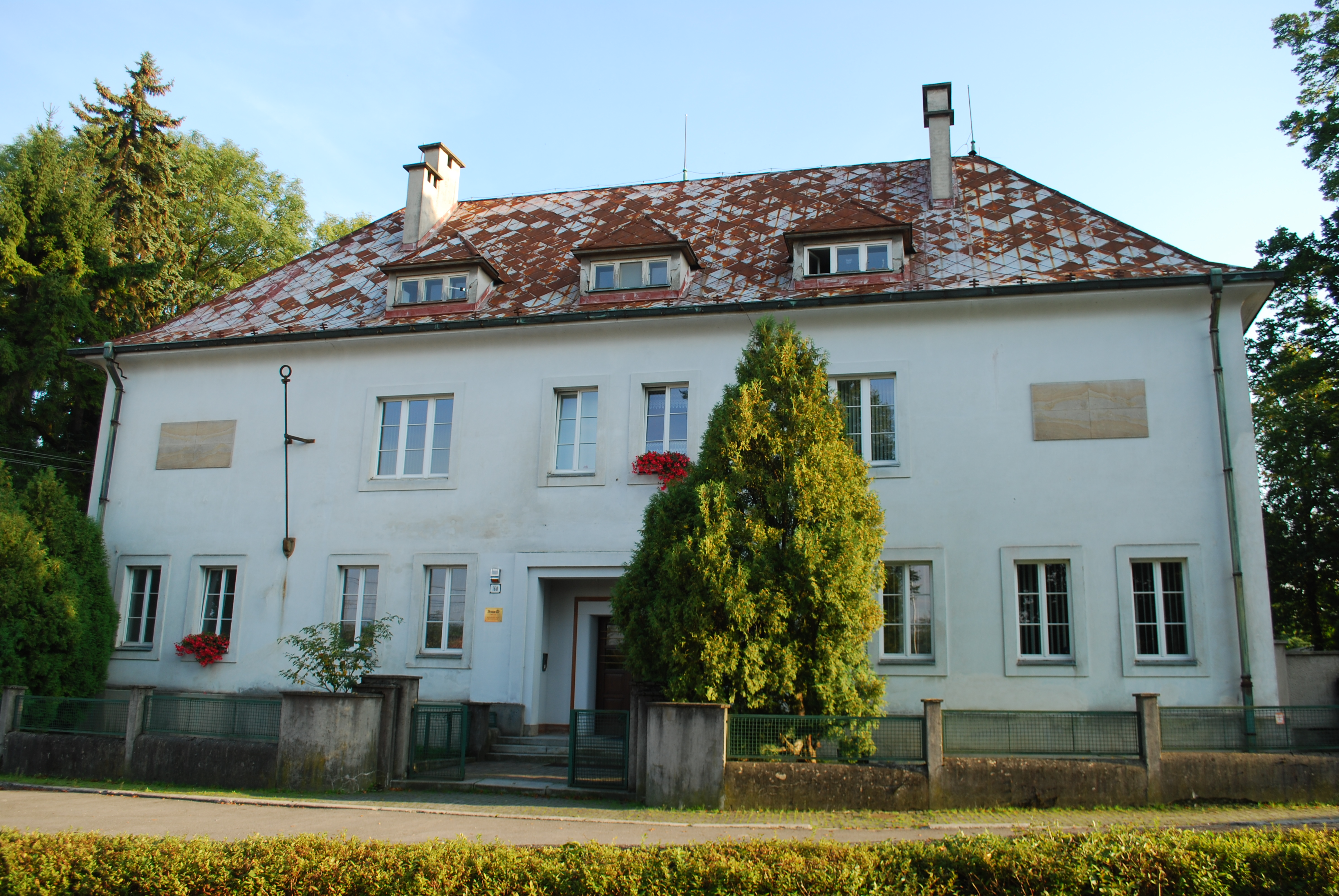 Summer residence of the first Czechoslovak president, T.G.Masaryk, built in 1931, Bystrička, Slovakia. However, Masaryk and his family were almost regular summer visitors at Bystrička as far as 1888.